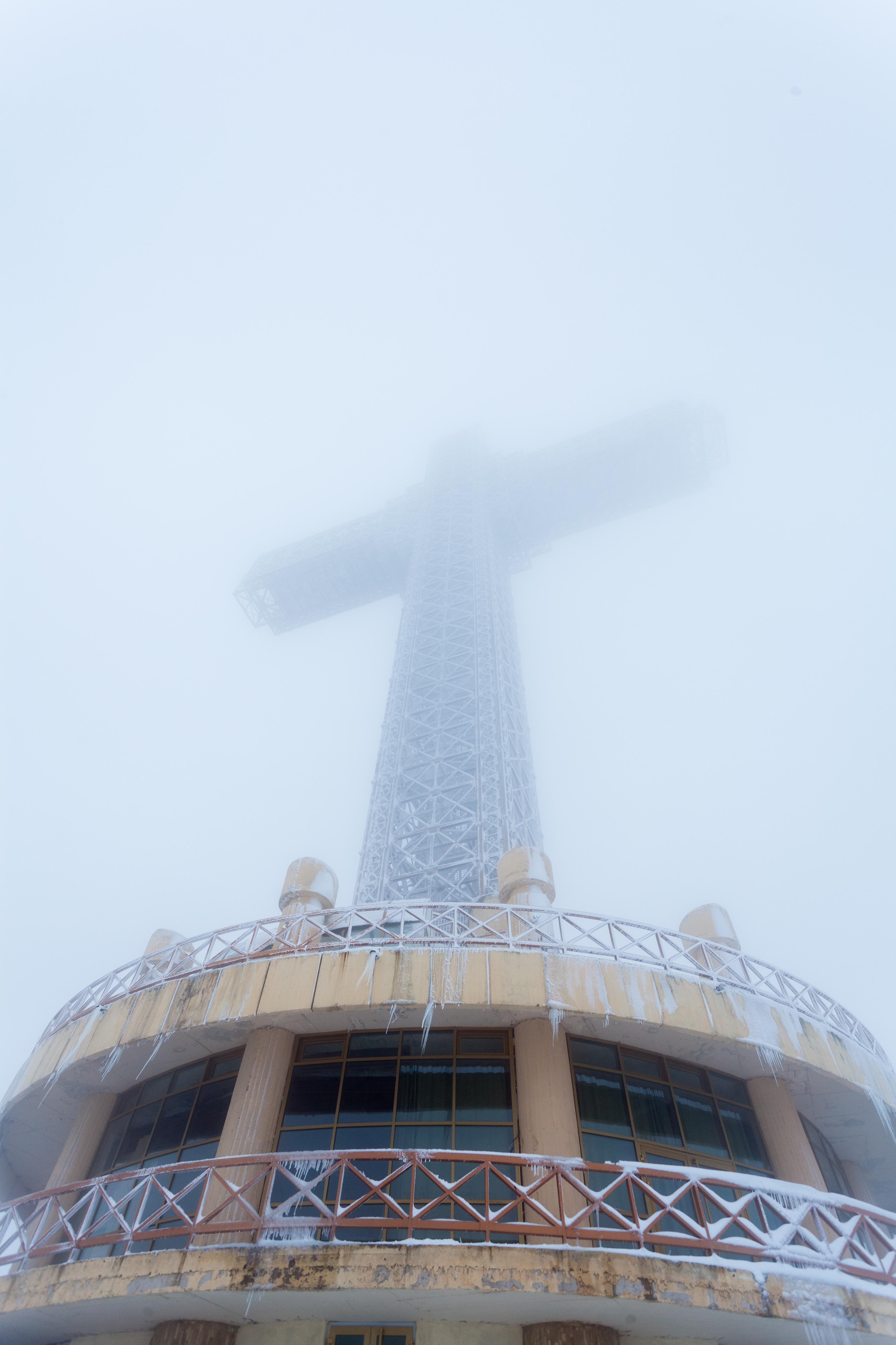 Millennium Cross, Skopje, Macedonia